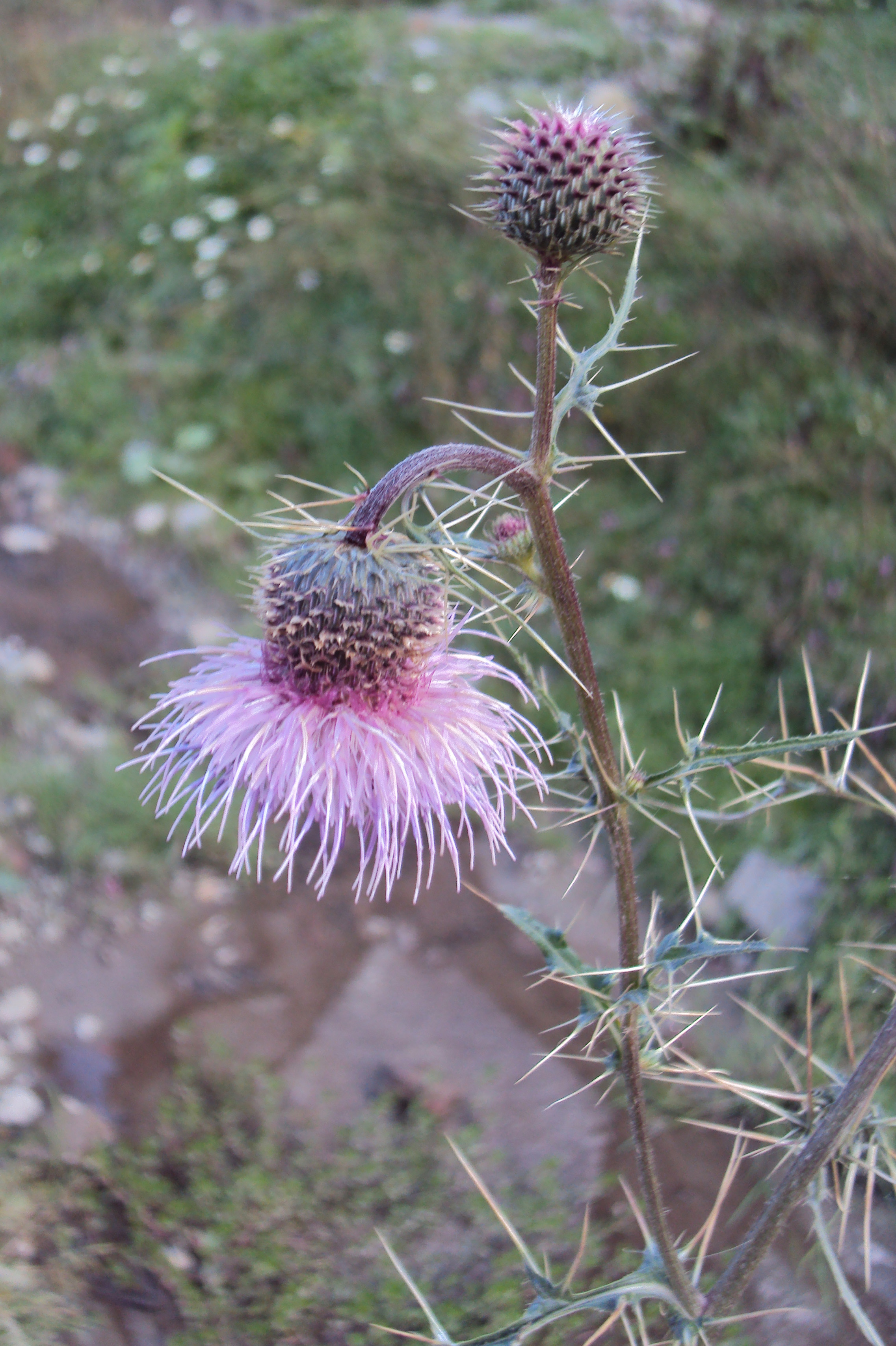 Cirsium wallichii